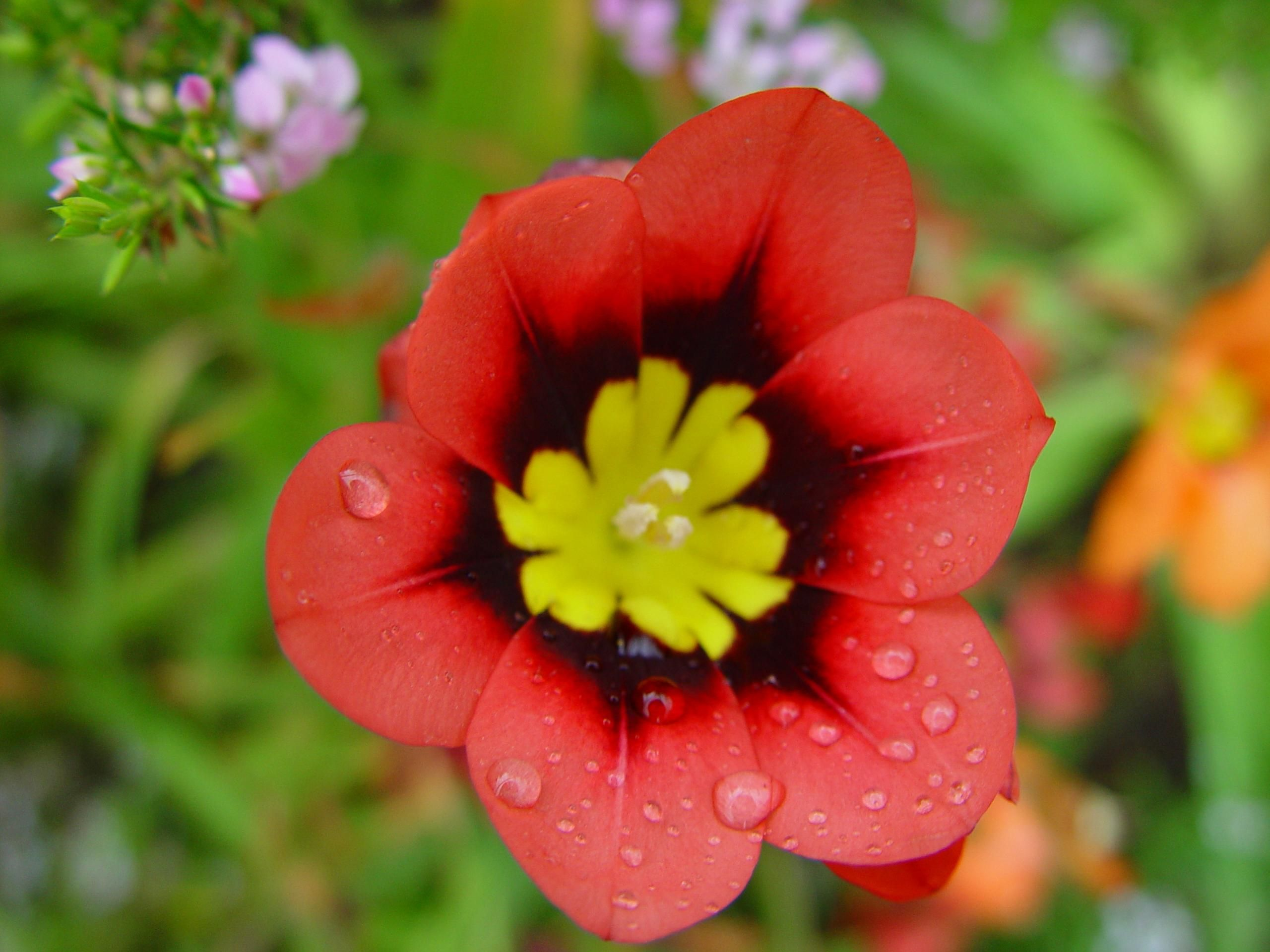 Image title: Raindrops on red and yellow flower Image from Public domain images website